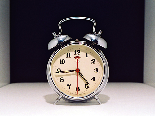 An old style alarm clock.